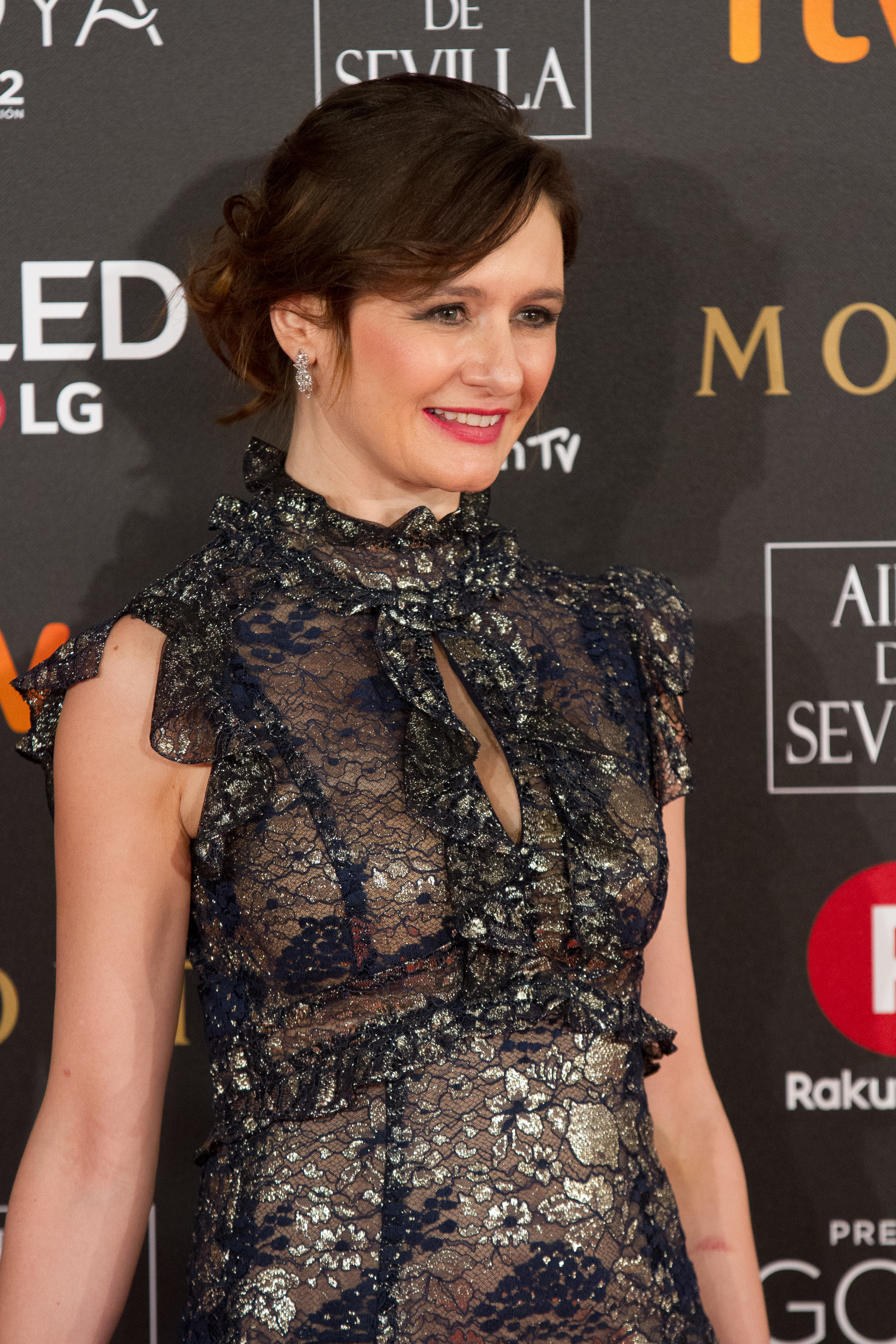 32nd Goya Awards, 2018.